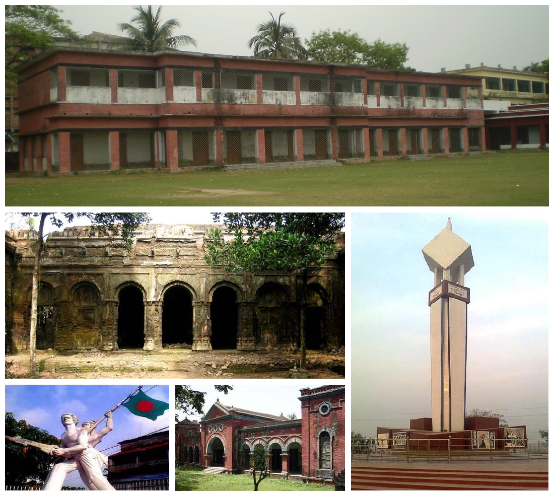 Montage of Naogaon, Bangladesh